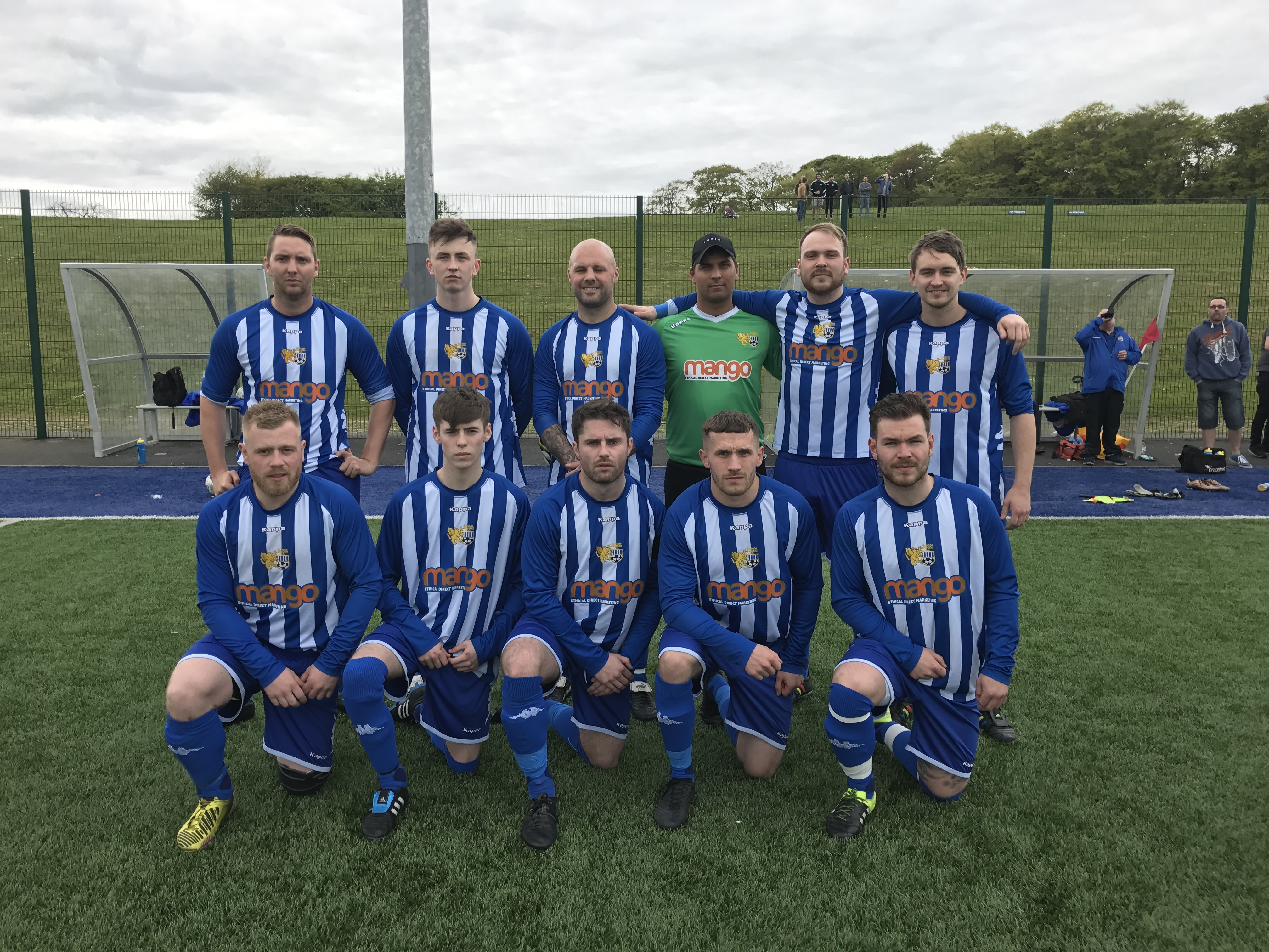 BRFC Squad